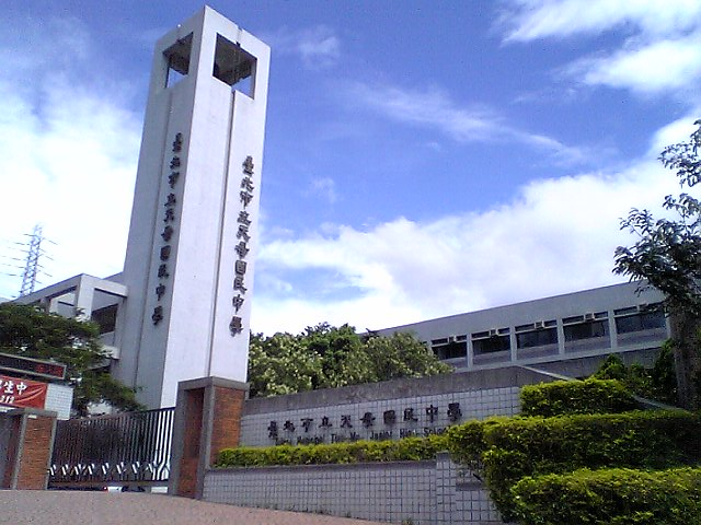 Taipei Municipal Tian Mu Junior High School.